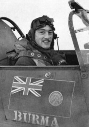 Robert Stanford Tuck in a 257 Squadron RAF Hurricane.